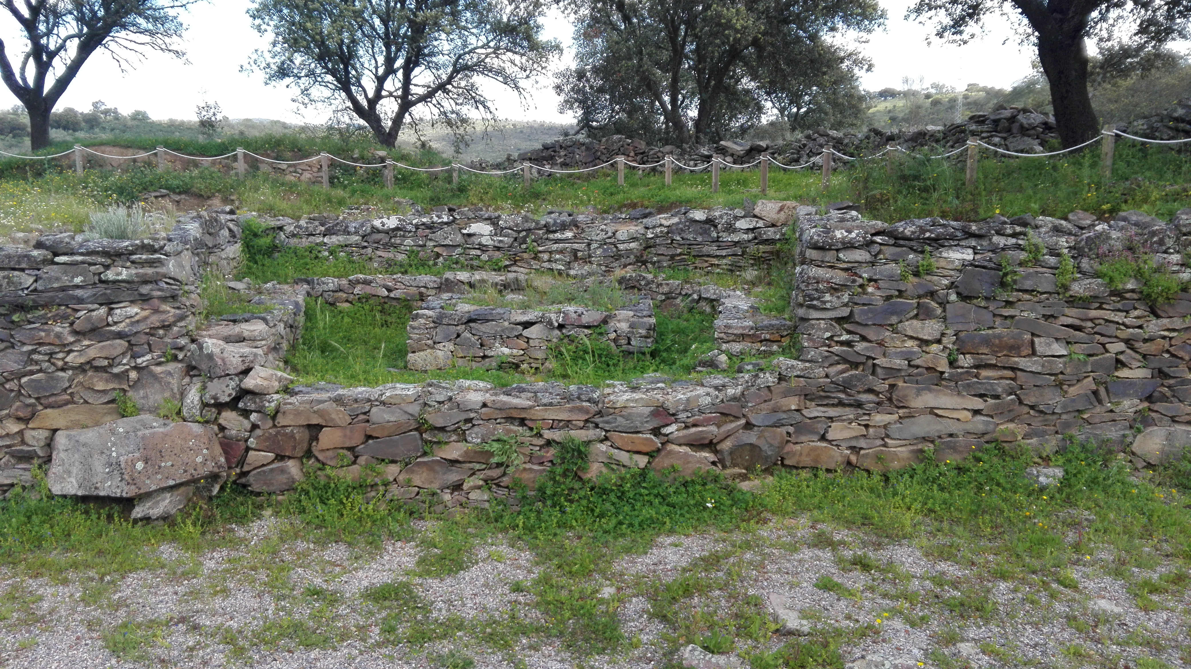 Santuario del Yacimiento Celta de Capote